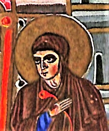 Virgin Mary . Detail of Annunciation from 13th century Targmanchats Gospel